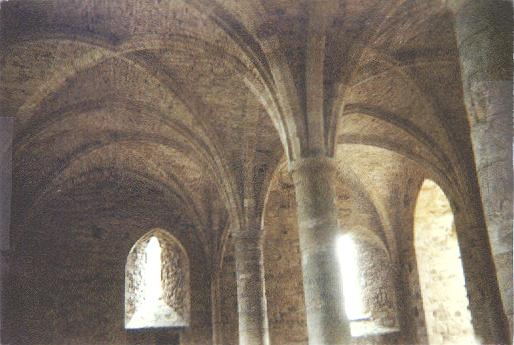 novices' room at battle abbey This is an interior shot in the novices' room at the south end of the dorter range at Battle Abbey. I took this picture on 35-mm film in 1986 and scanned it in to Wikipedia in 2002. K. Kay Shearin